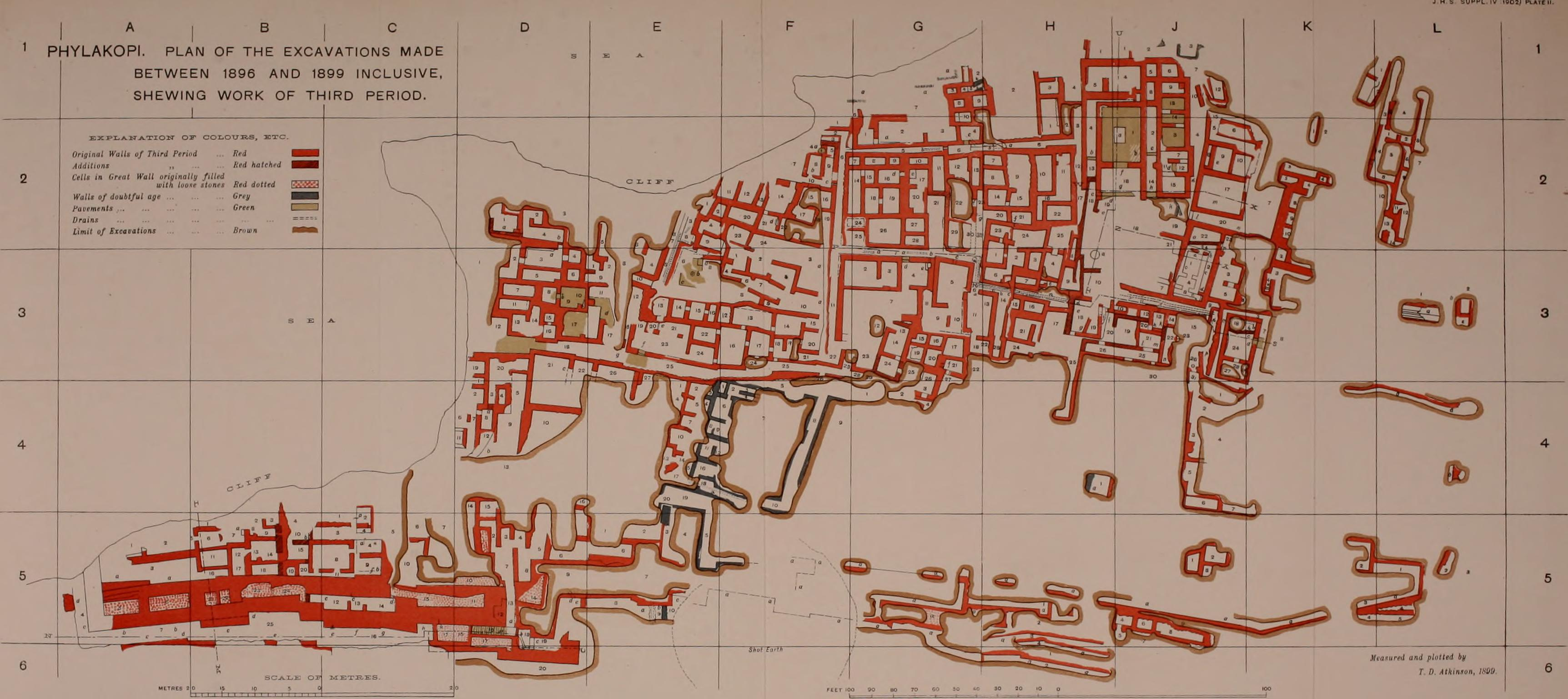 Title: Excavations at Phylakopi in Melos, Year: 1904 (1900s) Authors: British School at Athens Atkinson, Thomas Dinham, 1864-1948 Subjects: Publisher: London : Published by the Council, and sold on their behalf by Macmillan Text Appearing Before Image: ' Text Appearing After Image: J. H. S. SUPPL. IV. PL. III.